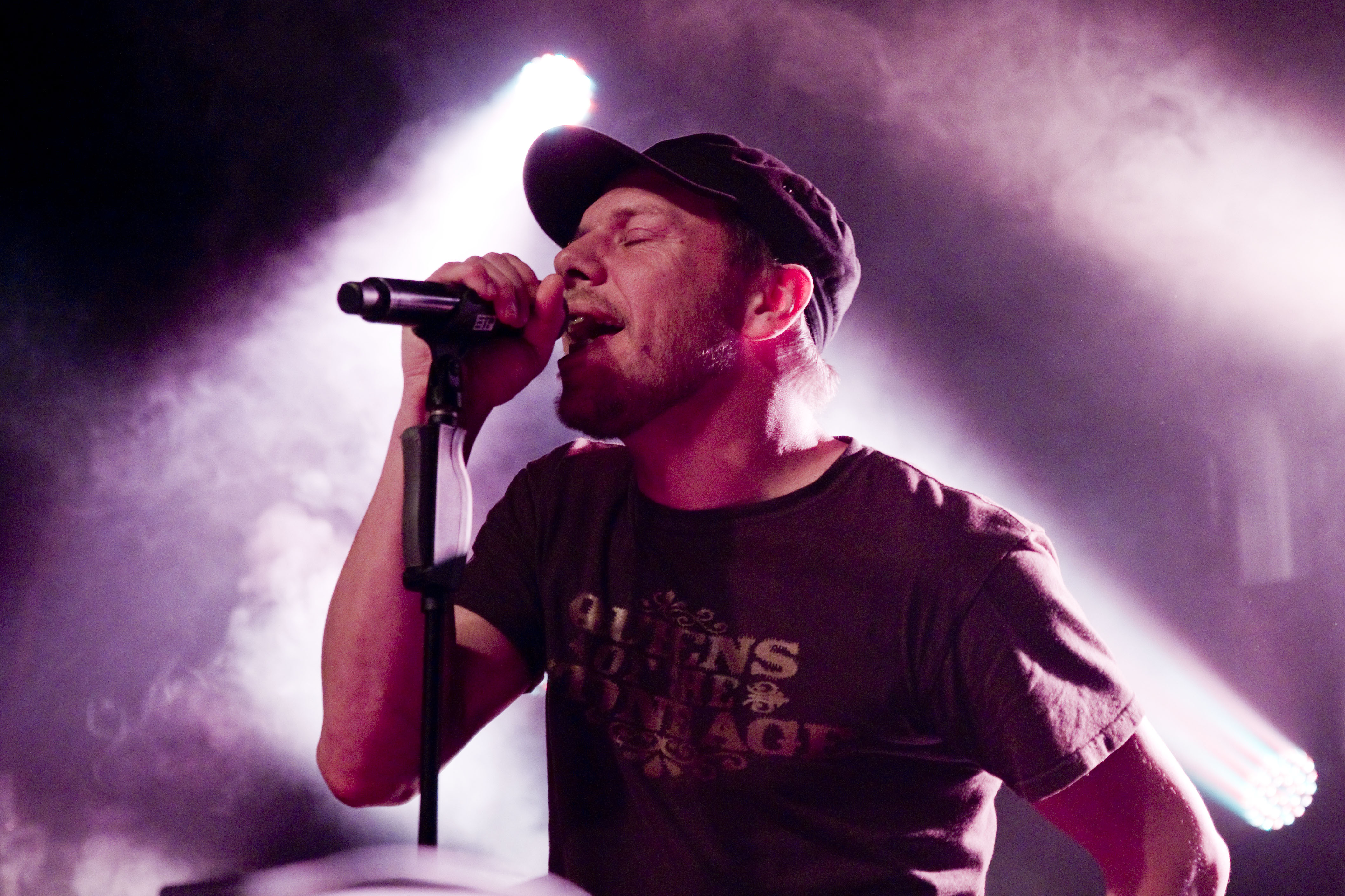 Danish singer Johan Olsen from the rock band Magtens Korridorer